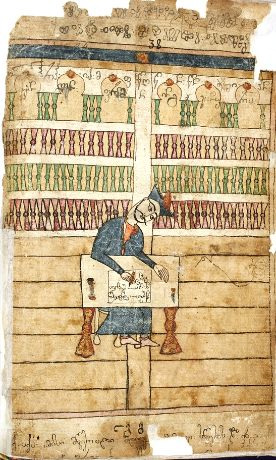 Painting of Shota Rustaveli made by Georgian painter Mamuka Tavkarishvili